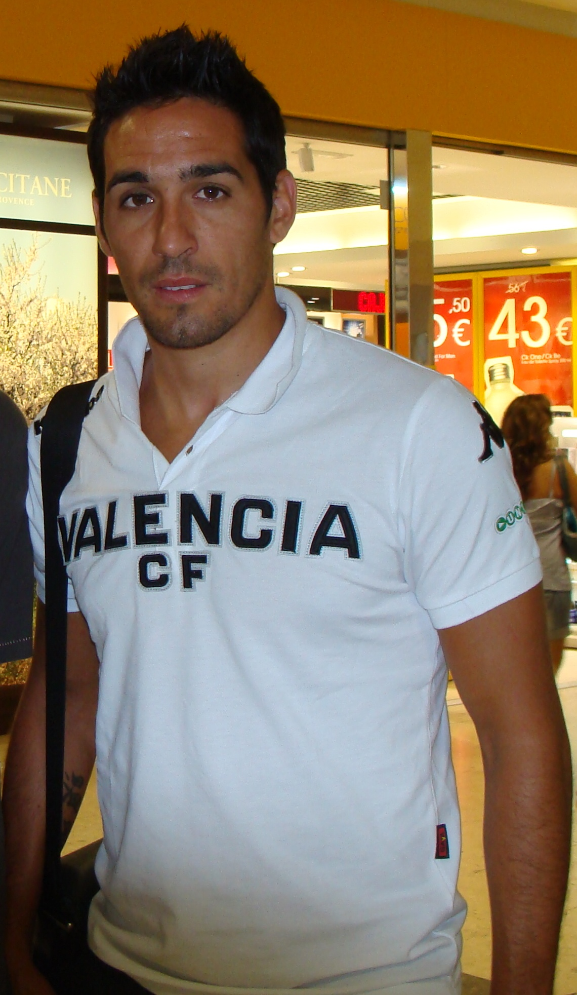 Vicente Rodríguez during the preseason with the Valencia CF